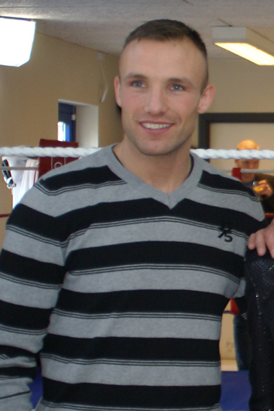 Mikkel Kessler at an open training session.